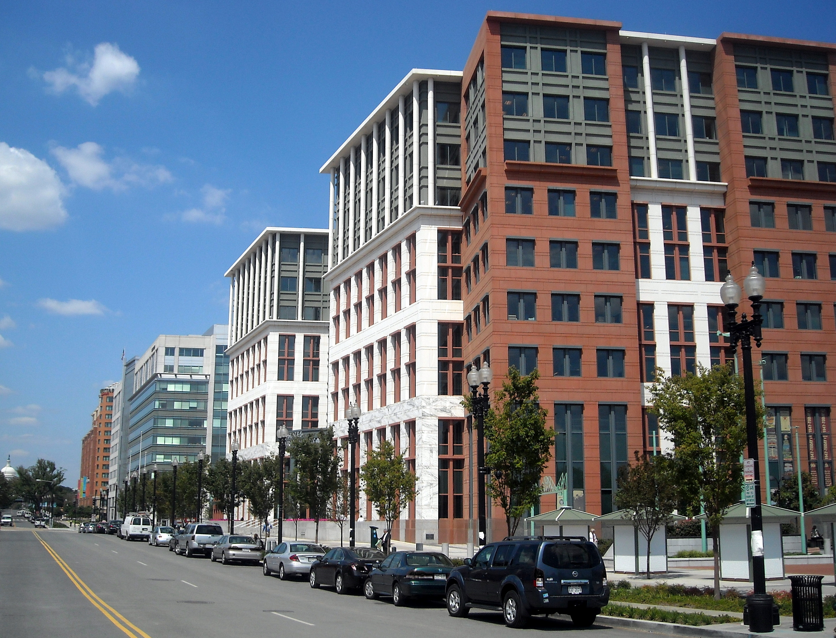 The United States Department of Transportation headquarters, located at 1200 New Jersey Avenue, S.E., in the Navy Yard neighborhood of Washington, D.C. The dome of the United States Capitol is visible in the background.